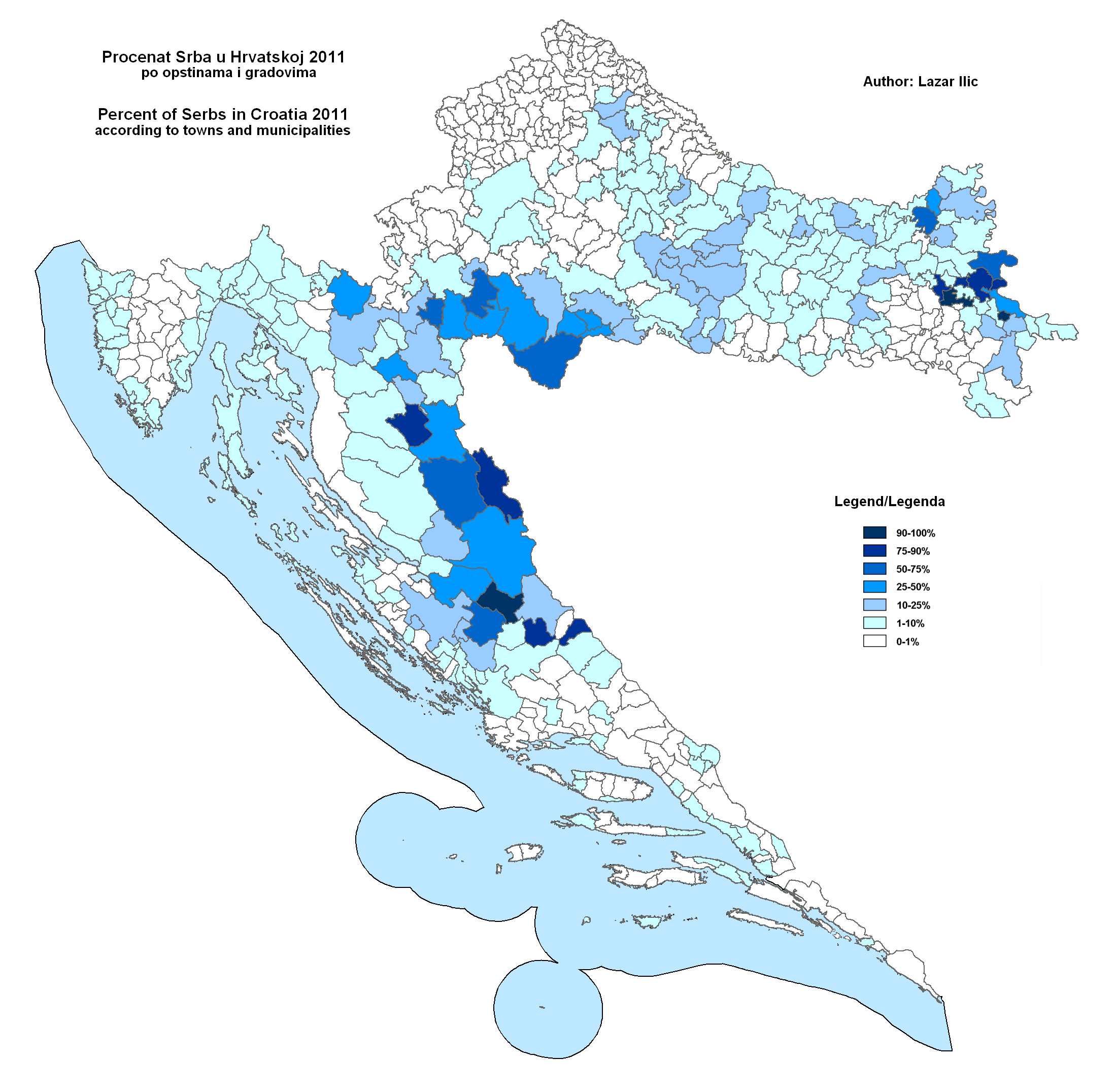 This map shows the percent of Serbs in municipalities and towns in Croatia, according to the 2011 census.